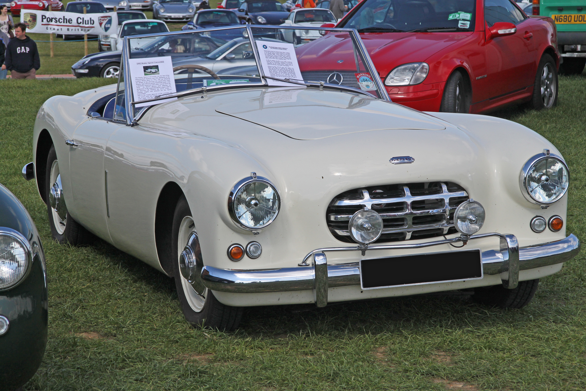 Healey Sports Convertible. Gerry Coker designed the bodywork for the Nash-Healey first exhibited at the 1950 Paris Salon and powered by the 3.8-litre straigh six Nash engine. For the 1951 London Motor Show Healey presented the 'Sports Convertible', a version of the Nash-Healey for the European markets and built on a new G-type chassis. Panelcraft Sheetmetal Co. Ltd (Woodgate, Birmingham) built the bodies for both the Nash-Healey and the Sports Convertible.